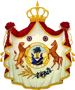 Coat of Arms of the Kingdom of Iraq